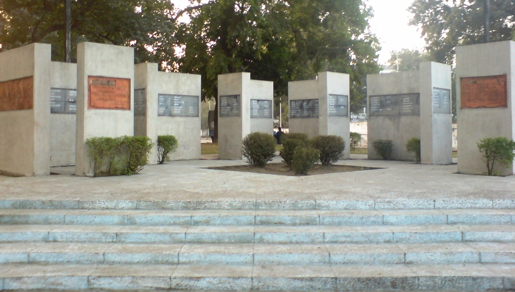 The monument was built to commemorate those martyrs of Dhaka University, teachers-students-staffs, who sacrificed their lives during 1971's liberation war of Bangladesh.